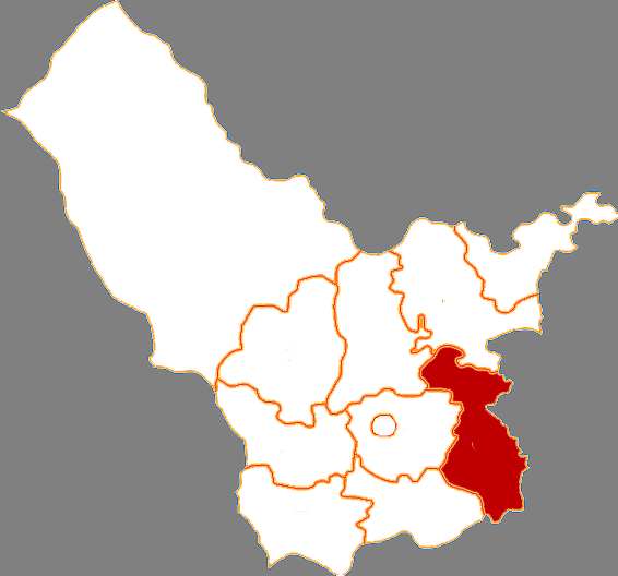 Locator map of Xinghe County in Ulanqab City, Inner Mongolia, China